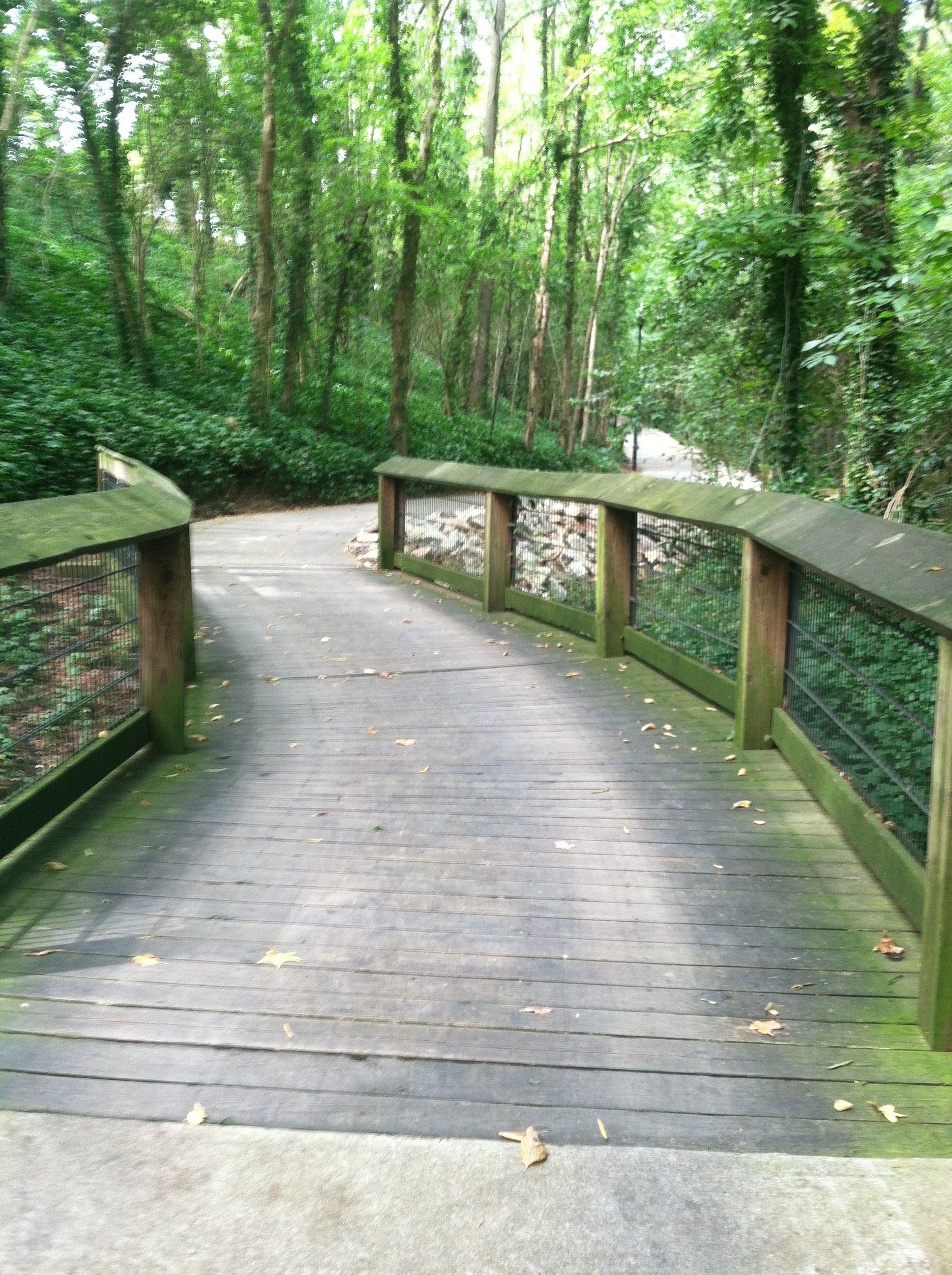 Pathway near northernmost end of park